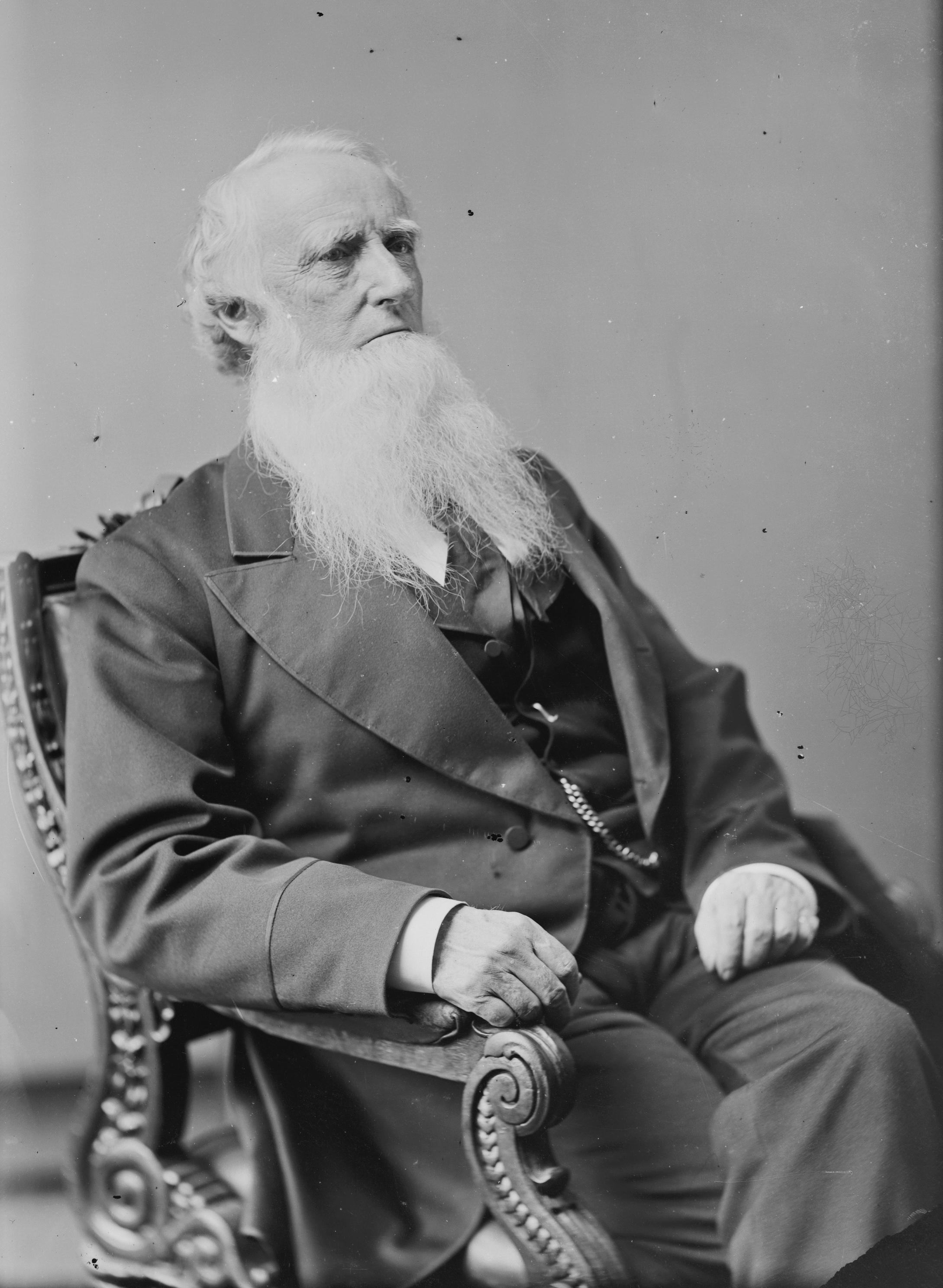 Allen T. Caperton. Library of Congress description: "Caperton, Hon. Allen Taylor of W. Va. (Member of the Confederate States Senate and served until 1865)"